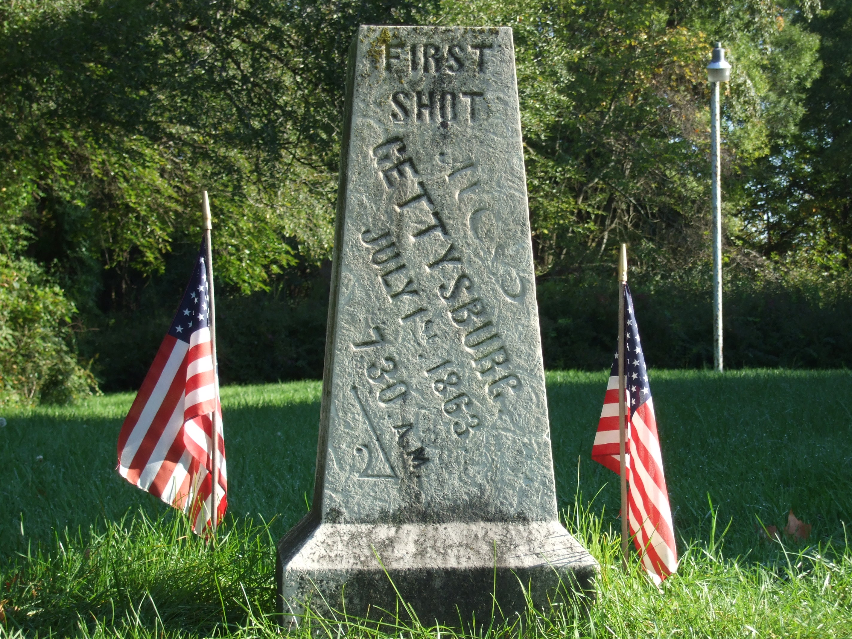 The first shot of the battle was fired about 7:30 am on July 1, 1863 by Lt. Marcellus Jones of the 8th Illinois Cavalry. The marker is located on Chambersburg Pike west of Herr Ridge.